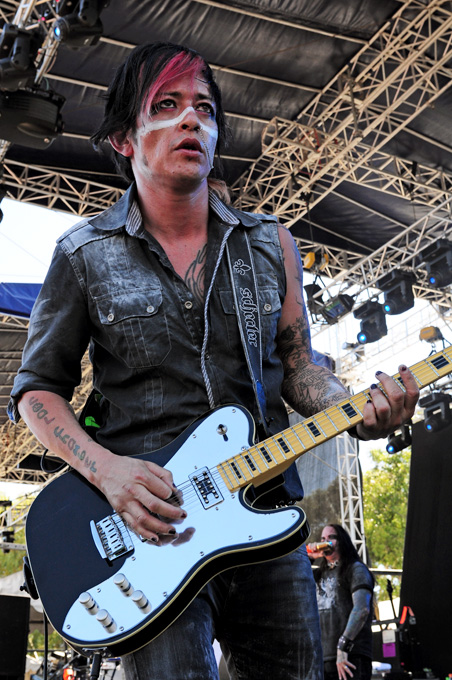 Soundwave Festival 2012